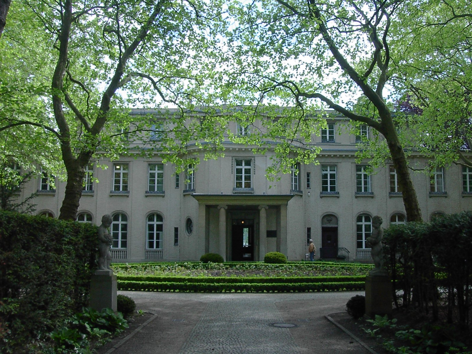 The villa at 56-58 Am Grossen Wannsee, where the Wannsee Conference was held. Today it is a memorial and museum.